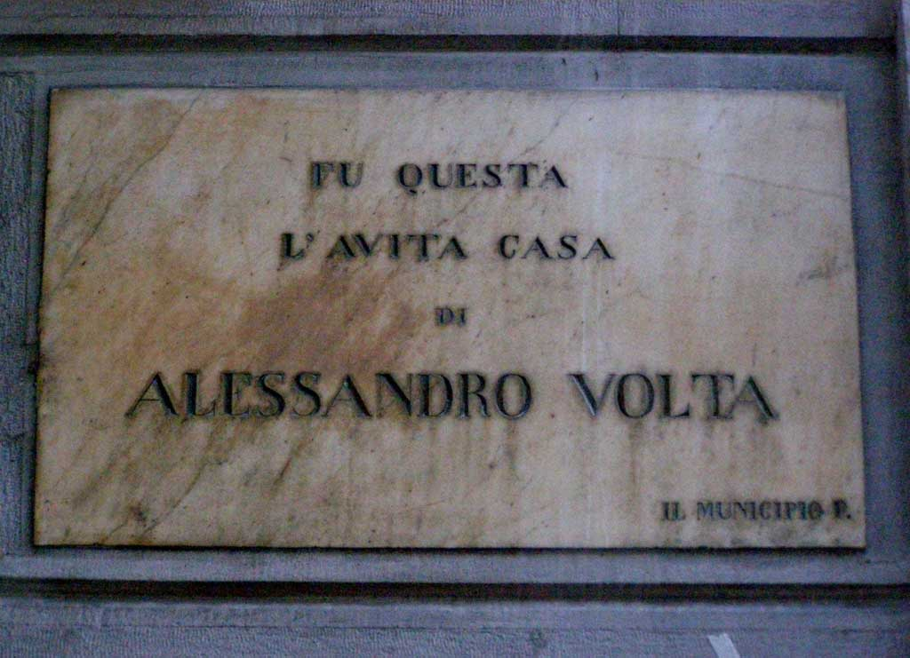 Alessandro Volta in Como.